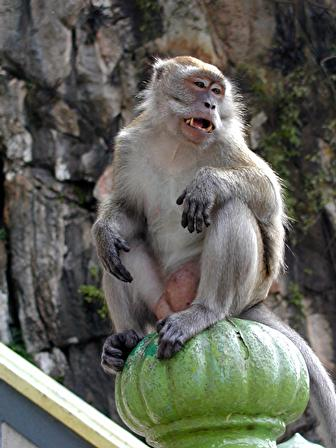 Crab-eating Macaque (Macaca fascicularis. Batu Caves, Malaysia)